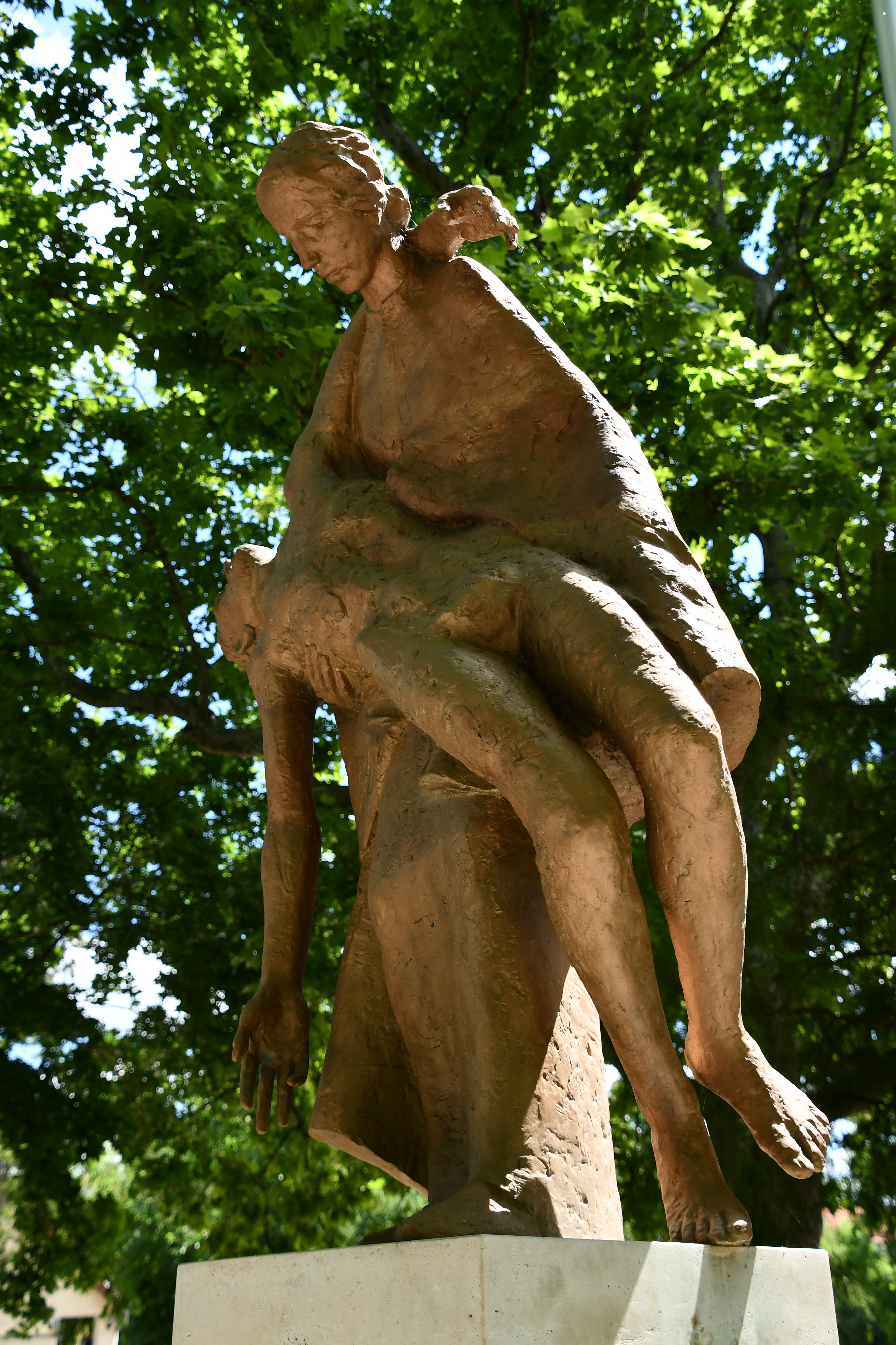 World War II Memorial by Frigyes Janzer, 1992, Aba, Fejér County, Hungary